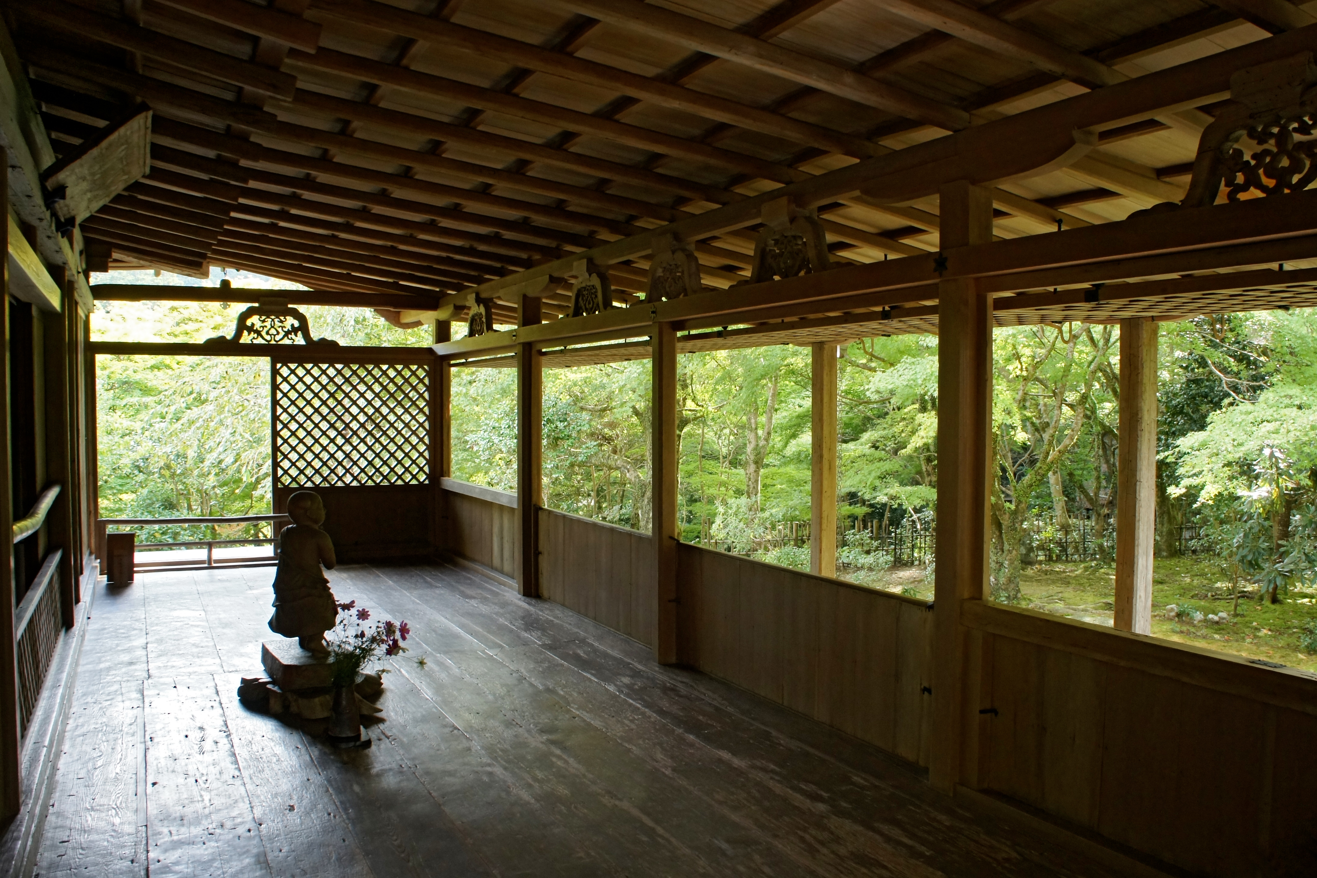 Kōzan-ji's Sekisuiin is Japan's National Treasure in Kita-ku, Kyoto, Kyoto Prefecture, Japan. Kōzan-ji was registered as part of the UNESCO World Heritage Site "Historic monuments of ancient Kyoto".